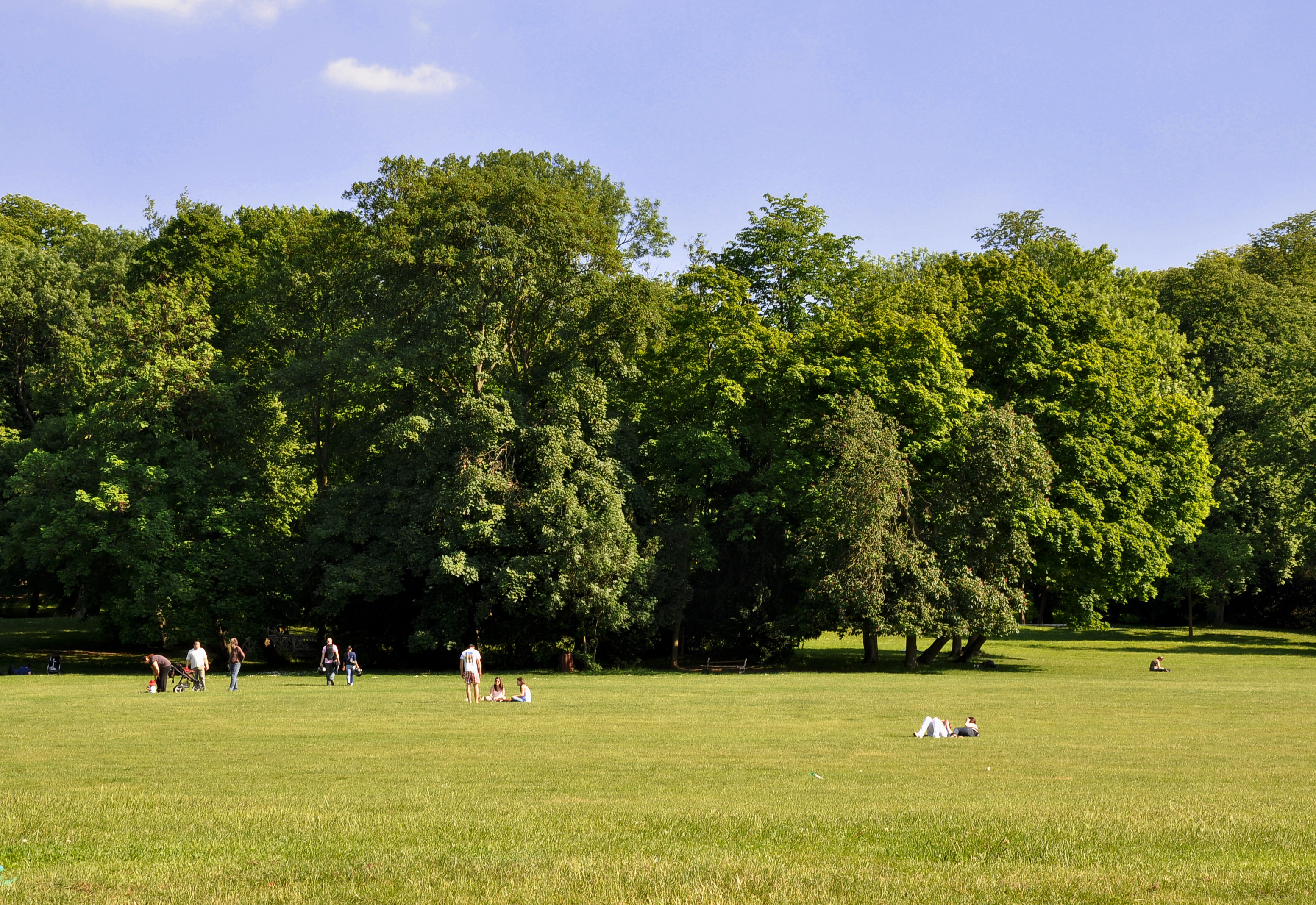 Bois-Préau Garden in Rueil-Malmaison in the Hauts-de-Seine departement of France. Garden is a part of the national domain of Malmaison belonging formerly to Joséphine de Beauharnais, wife of Napoleon Ier.